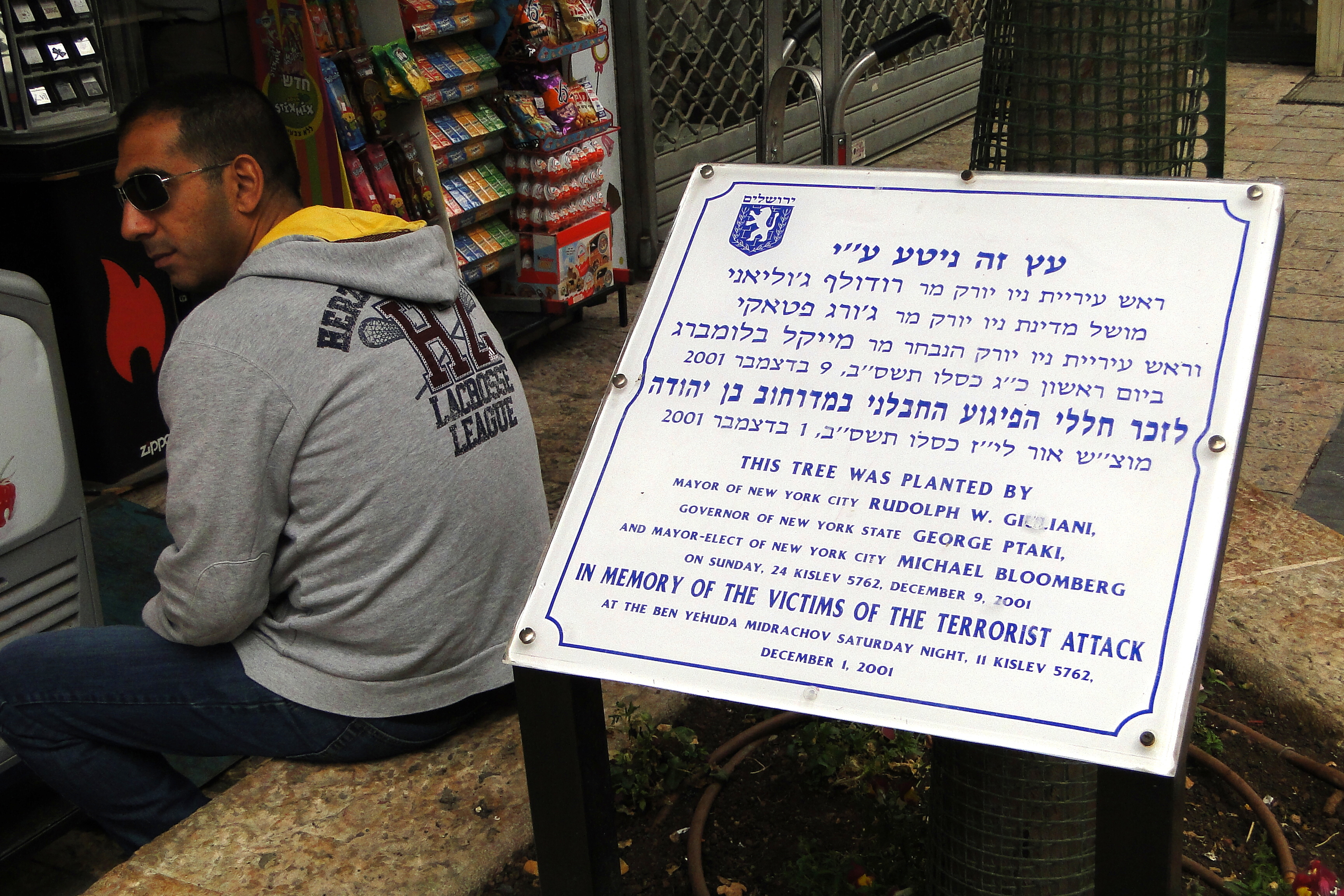 Plaque Commemorating 2001 Terrorist Attack on Ben Yehuda Midrachov - Jerusalem - Israel Plaque Commemorating 2001 Terrorist Attack on Ben Yehuda Midrachov - Jerusalem - Israel (5680704597).jpg